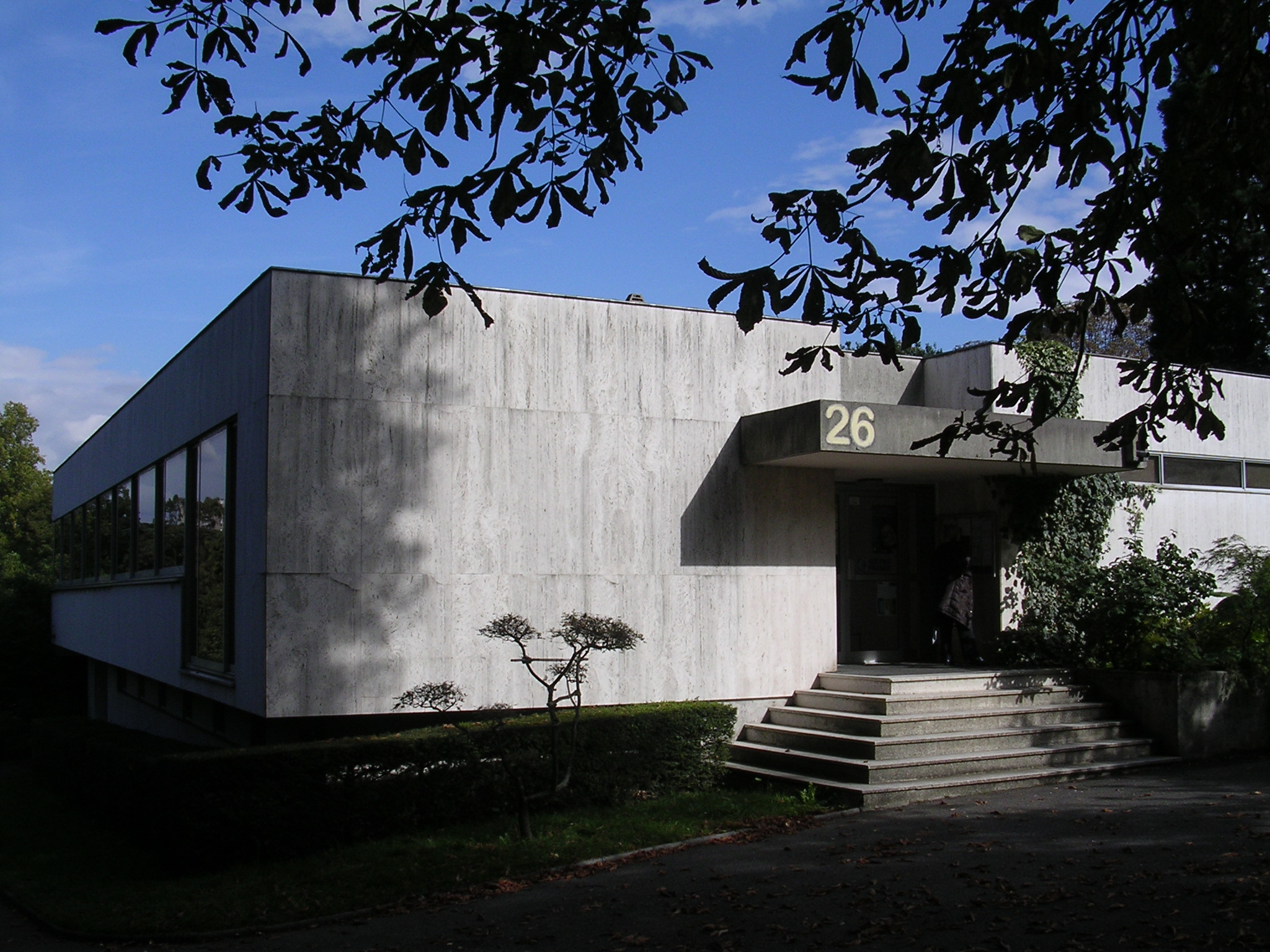 Weather station Parc Montsouris - bâtiment Météo France, XIVe arrondissement, Paris, France.